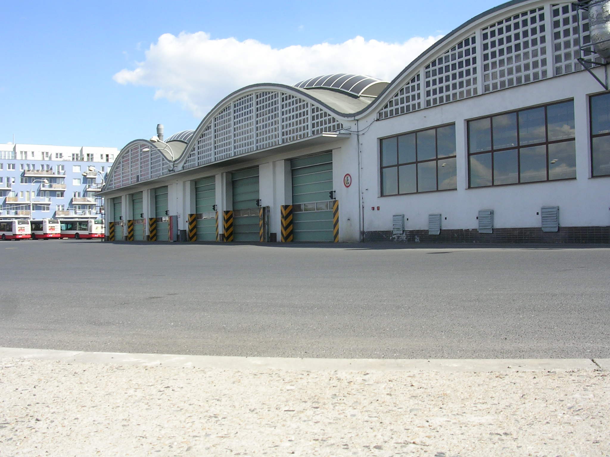 Michle, Prague, the Czech Republic.